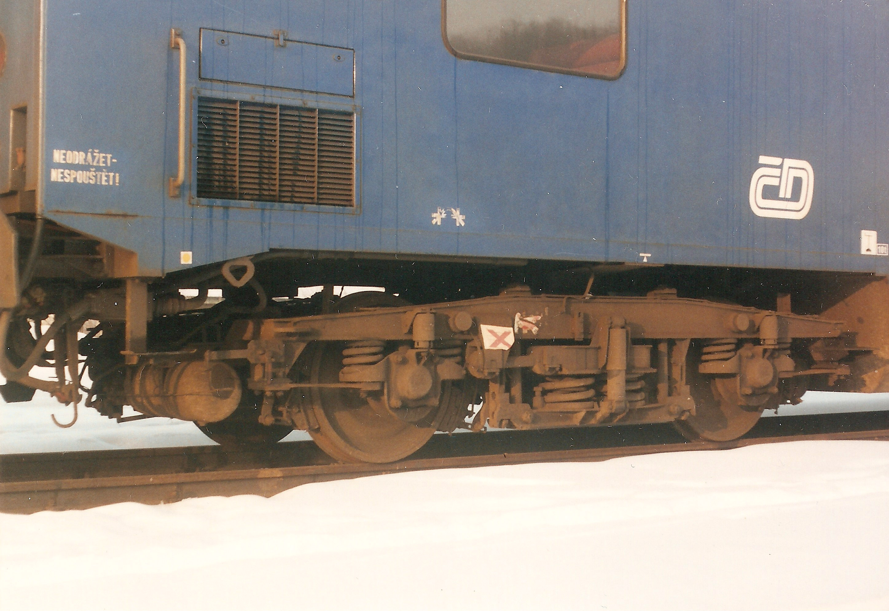 Bogie görlitz VI of the doble-decker ČSD class Bap/Bmto